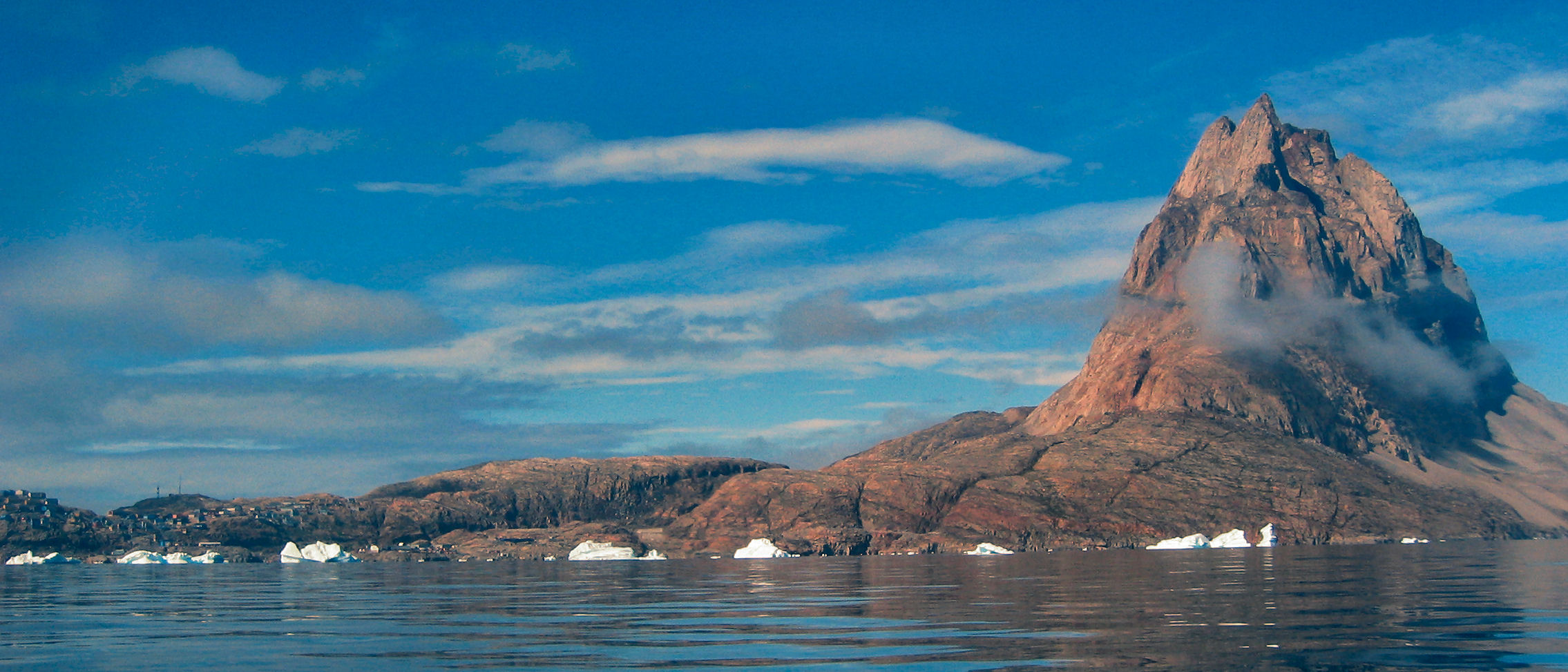 The City of Uummannaq (far left), in northern Greenland, dwarfed by the 1100 meter high mountain which gives the city its name.